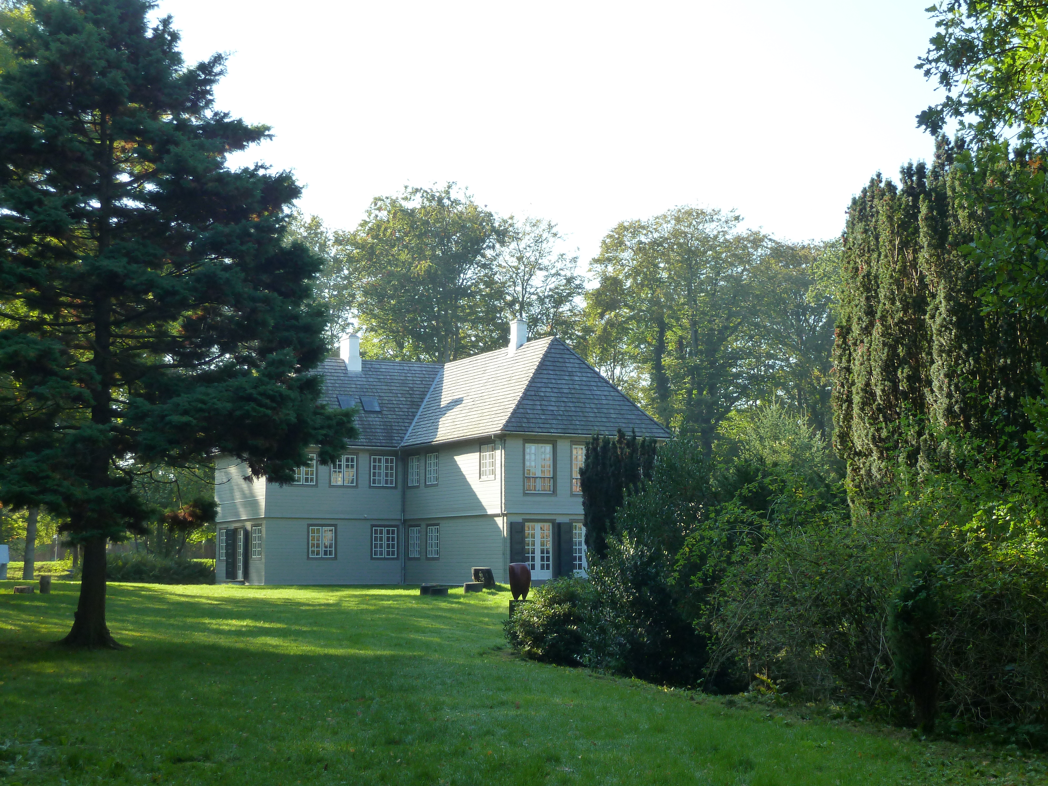 Munkeruphus north of Copenhagen, Denmark